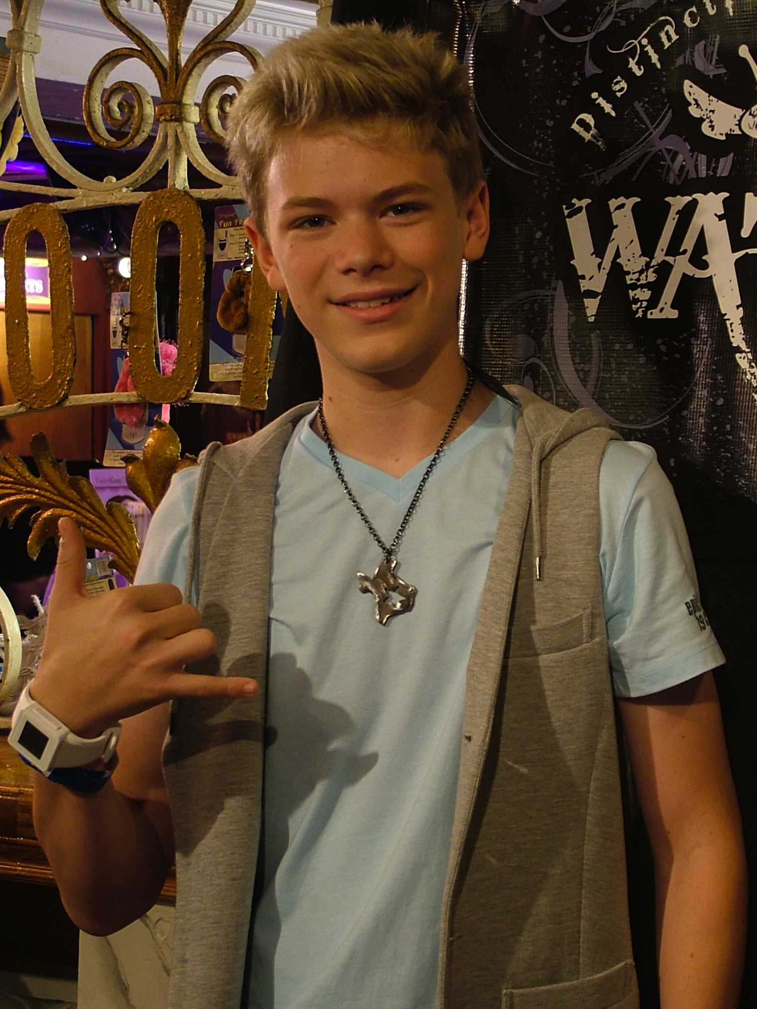 Kenton Duty in August 2010